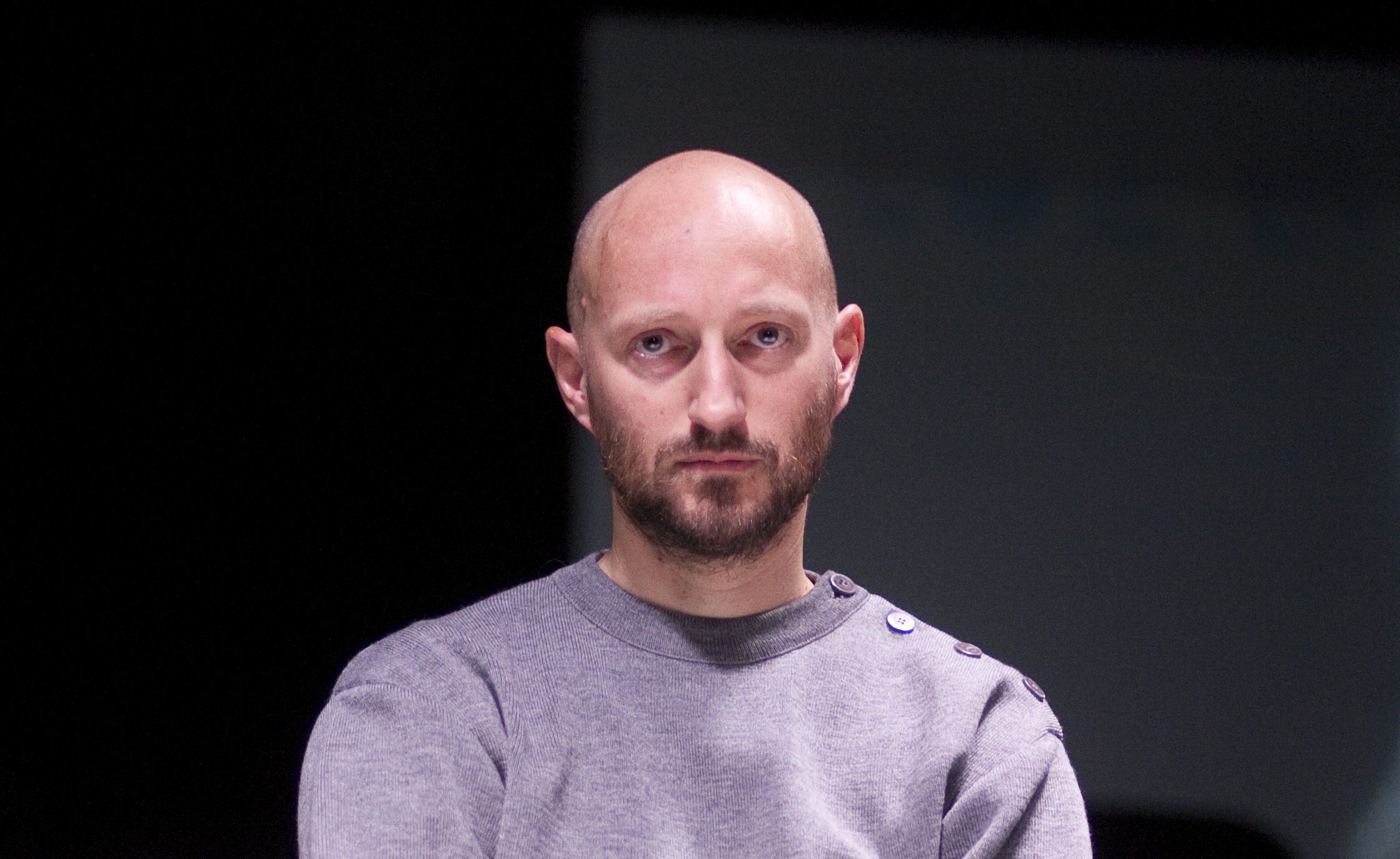 joint workshop EnsAD § Science Po at Théatre des Amandiers